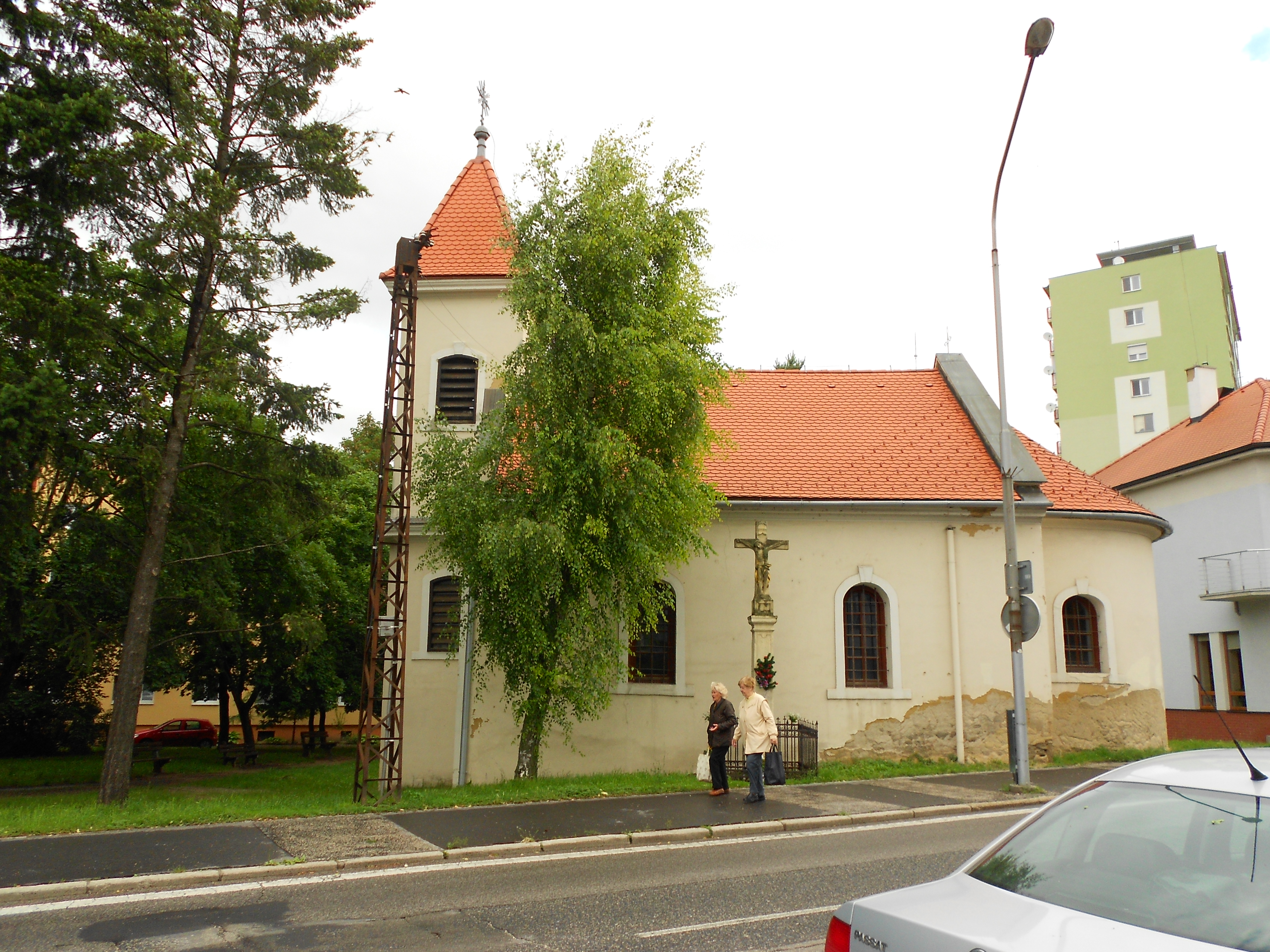 Church of Saint Stephen,Nitra